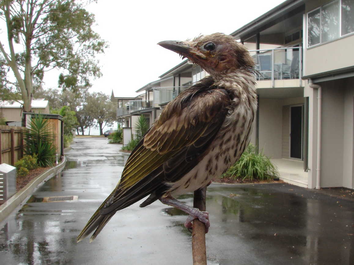 Baby bird. Sphecotheres vieilloti - immature Australasian Figbird